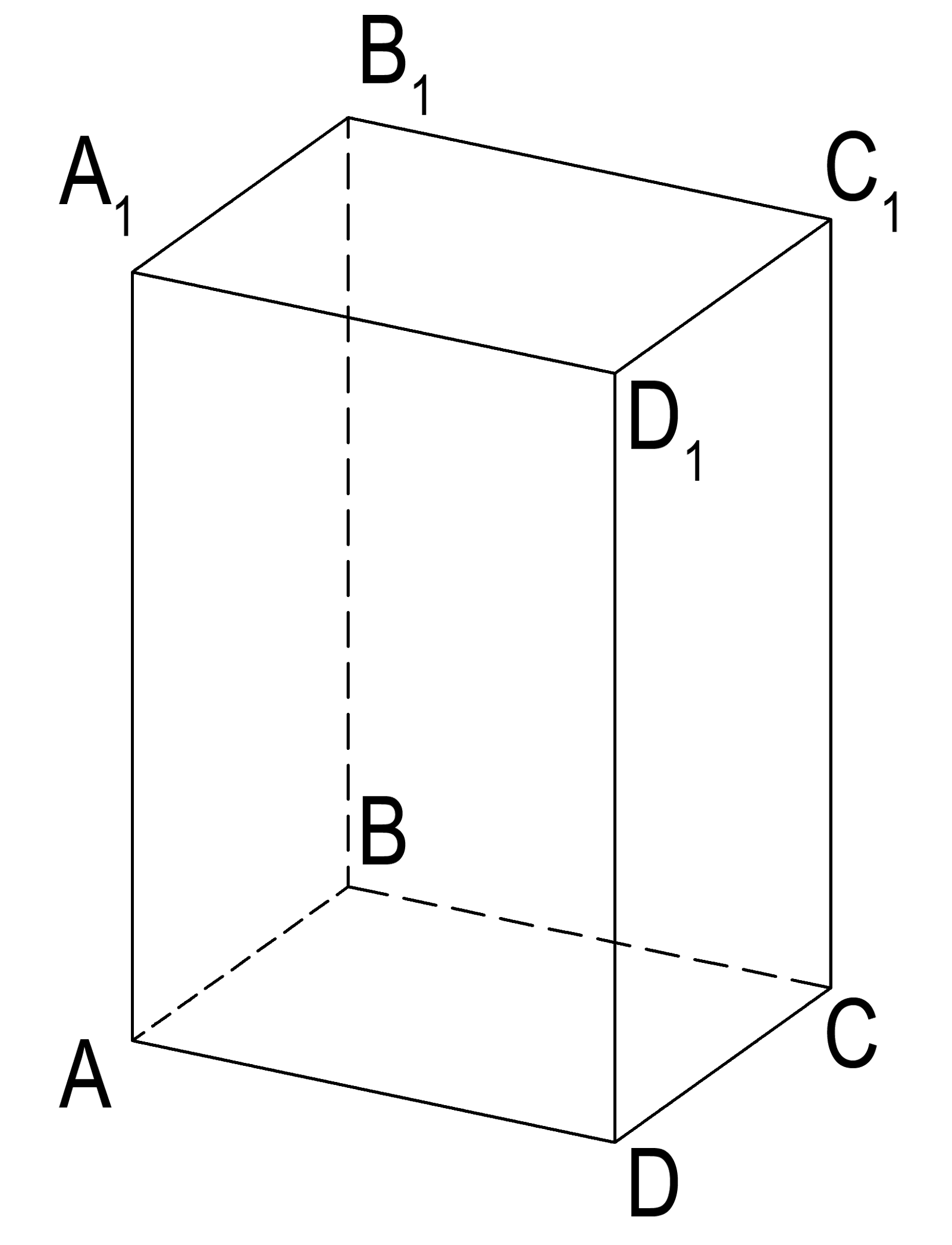 Rectrangular parallelepiped ABCDA1B1C1D1